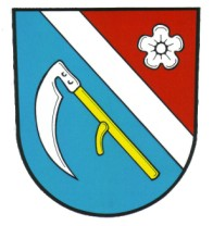 Čechtín CoA CZ